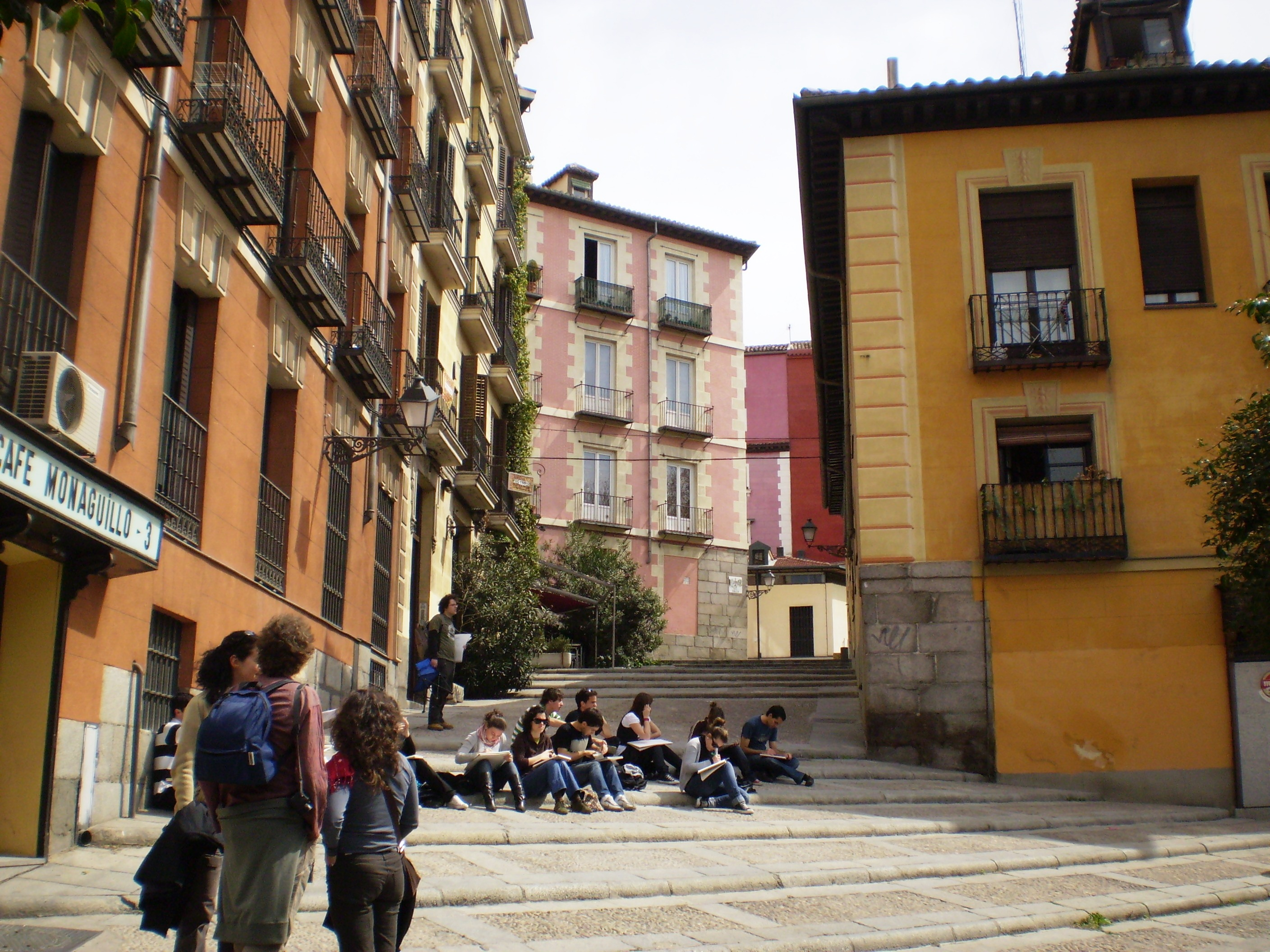 Conde Street. Madrid, Spain